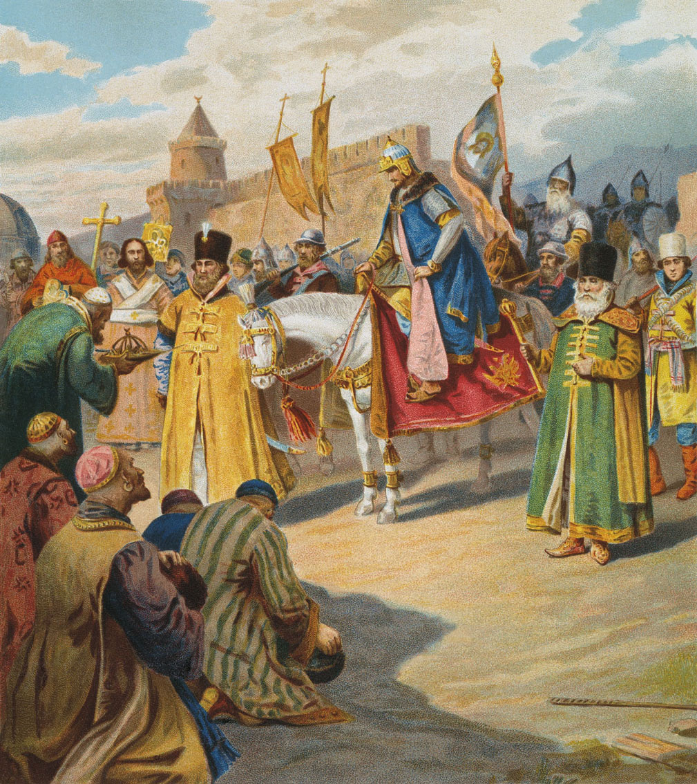 Pyotr Korovin (1857-1919). Ivan IV under the walls of Kazan.